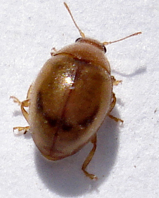 Coleoptera Rhyzobius cf.chrysomeloides